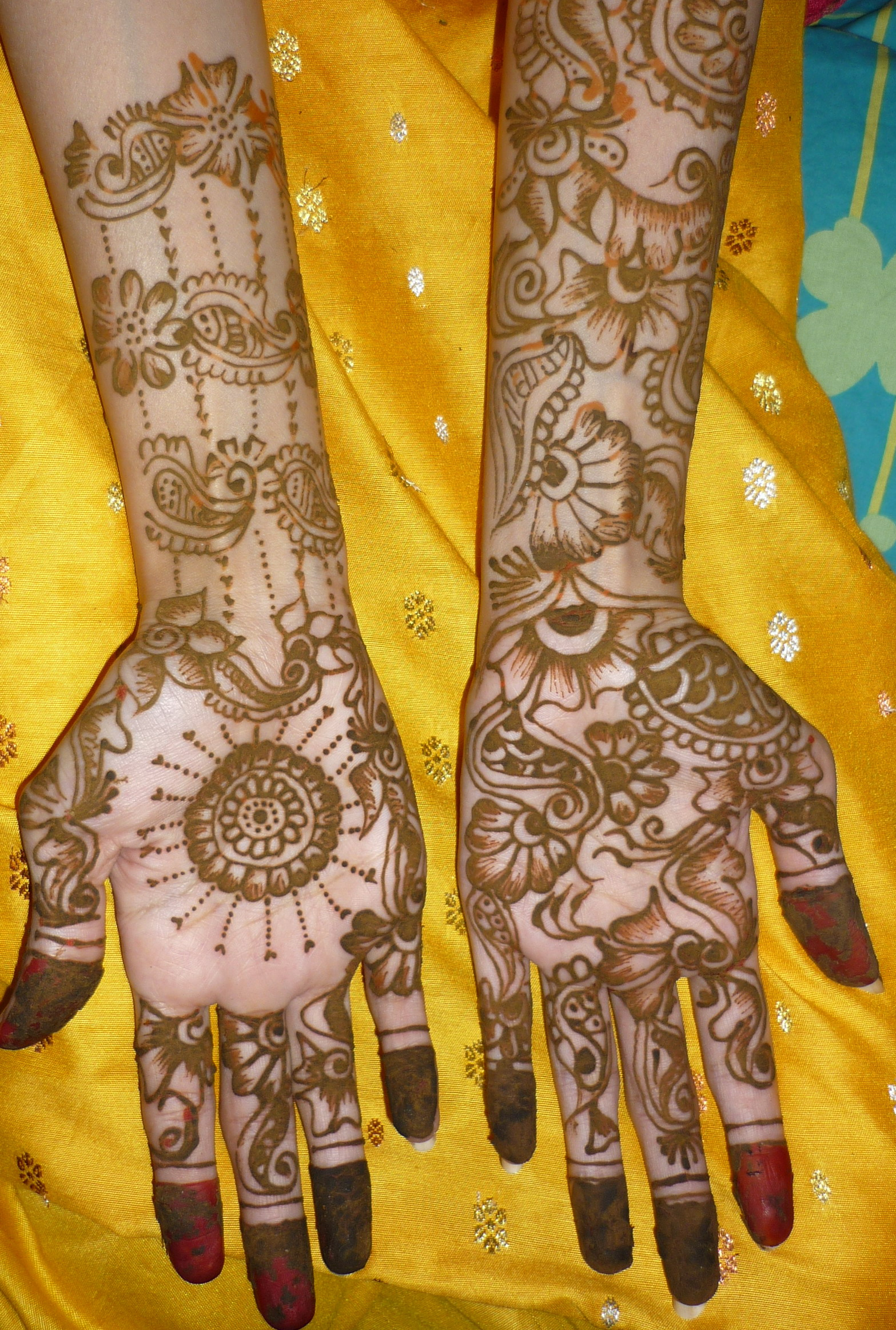 mehndi decorations